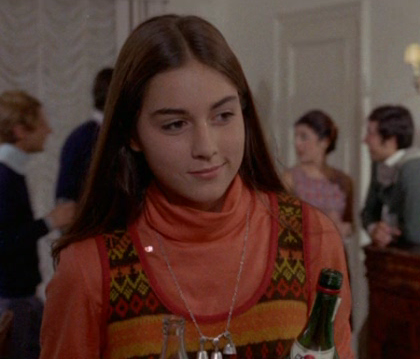 Romina Power in a scene of the film Nel sole